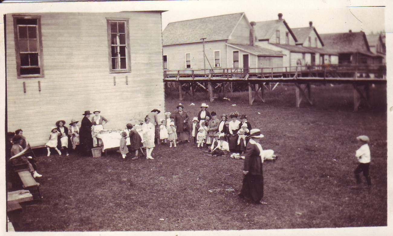 An event at Harrison Mills, British Columbia.